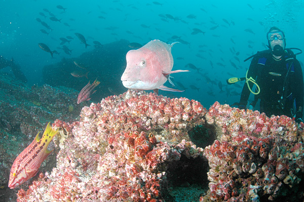 Diver, Hogfish and Parrotfish, Darwin Island, Galapagos Islands, Ecuador. Image taken by Clark Anderson/Aquaimages.